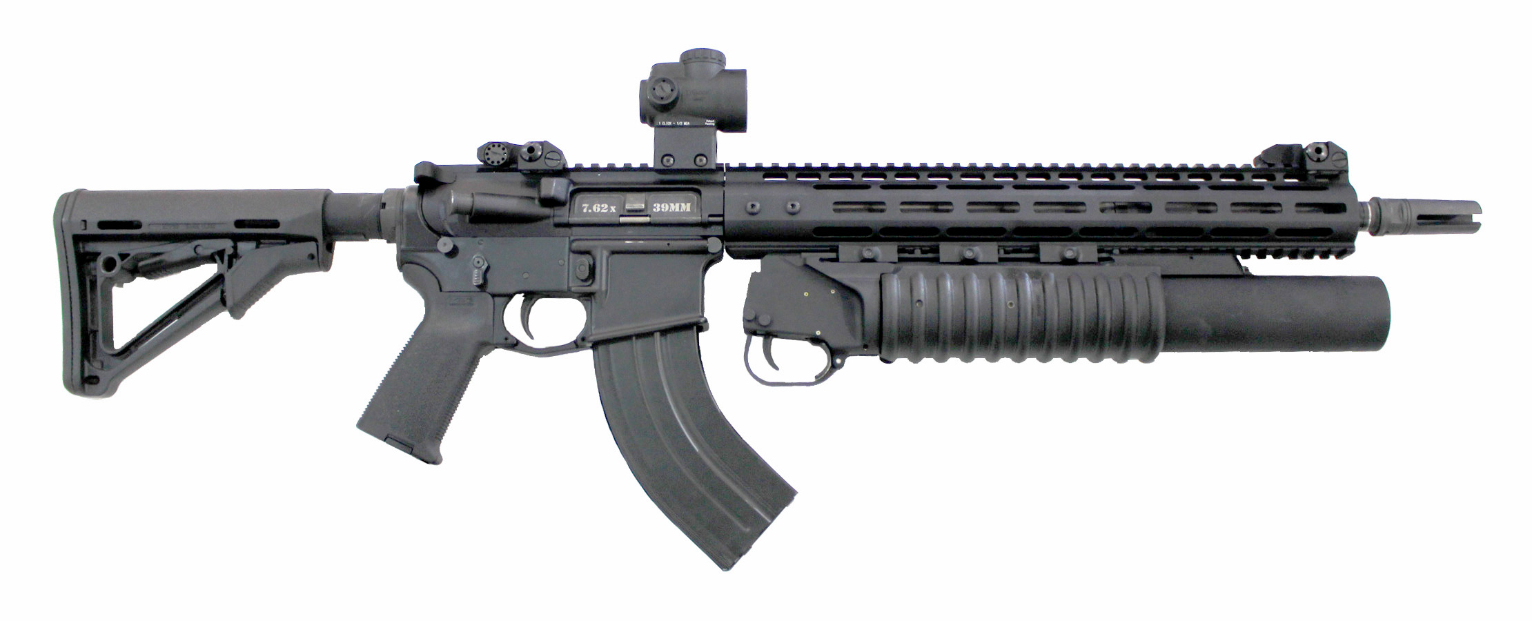 WAC-47 a M4 carbine adopted for two calibres, produced in Ukraine by Ukroboronprom. First presented in October 2017